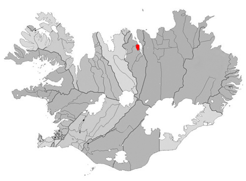 Based on Municipalities of Iceland.png.